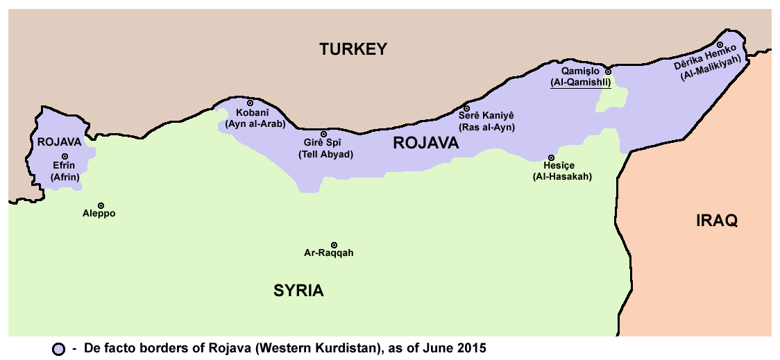 Map showing de facto borders of Rojava (Western Kurdistan) in June 2015.